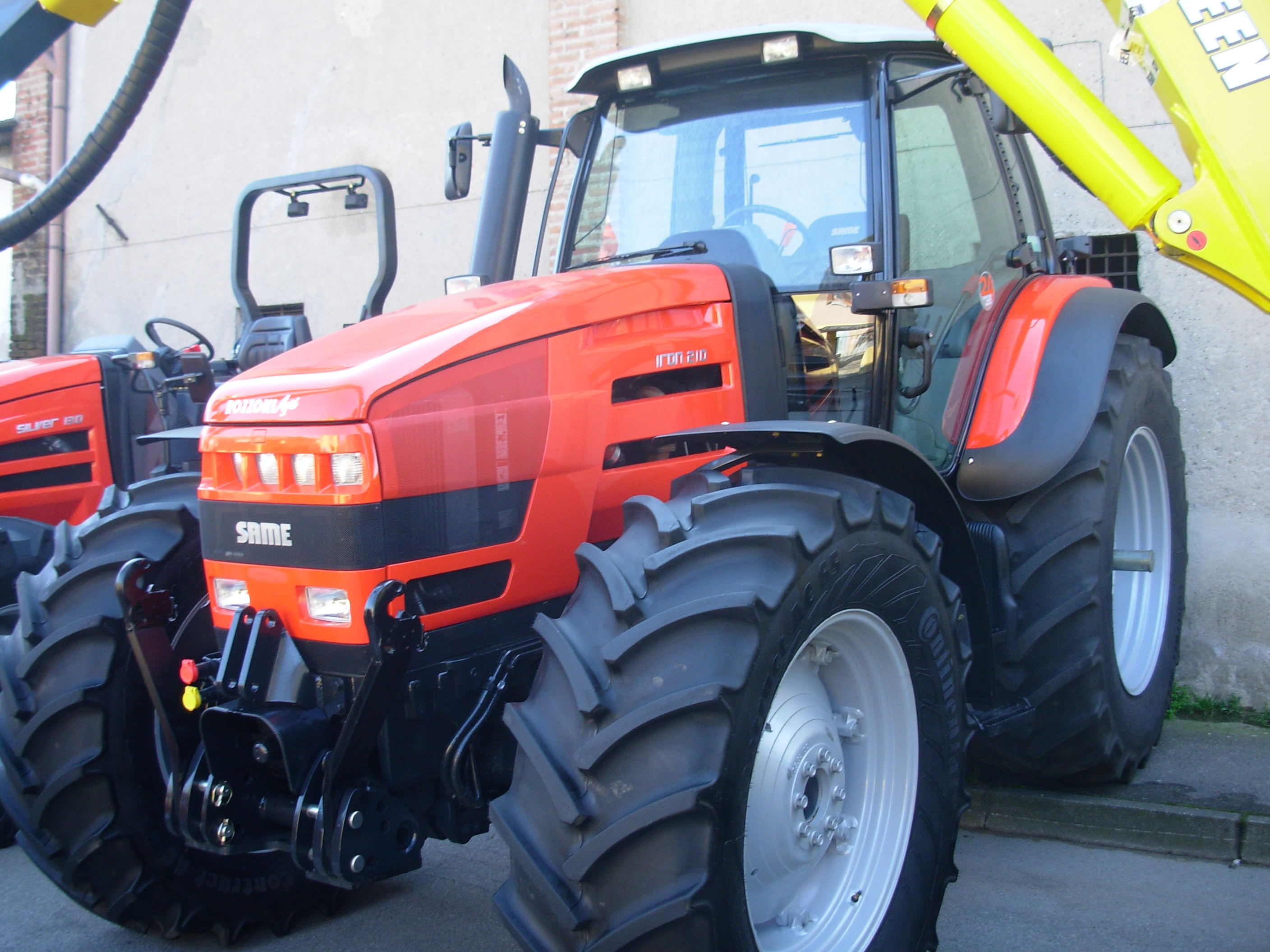 Tractor SAME Iron 210